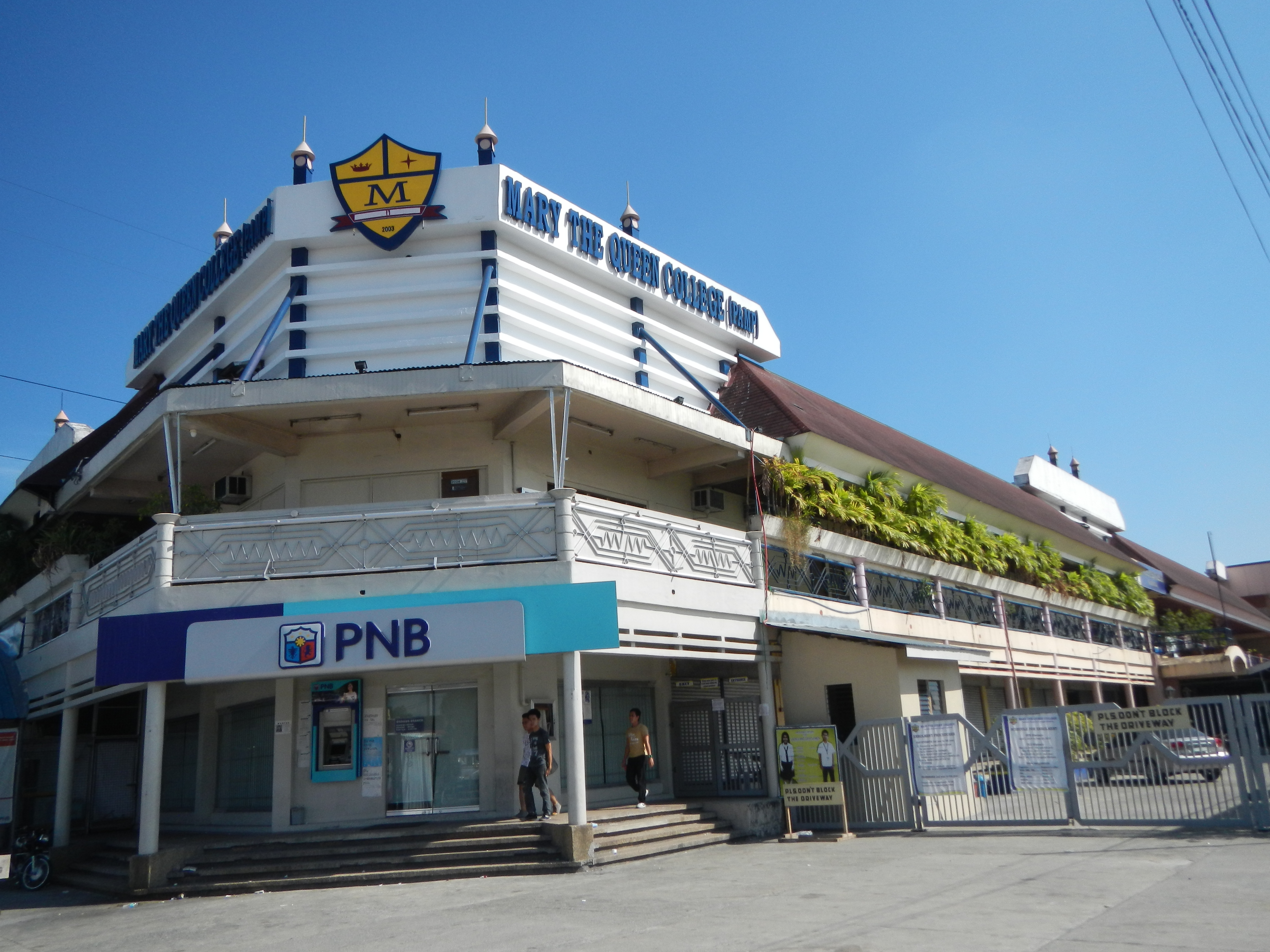 Along the Manila North Road, or MacArthur Highway decorated by arches of ageless trees in San Matias, Guagua Pampanga, the Diosdado P. Macapagal Memorial Hospital; beside the Mary the Queen College (Pampanga), Inc..